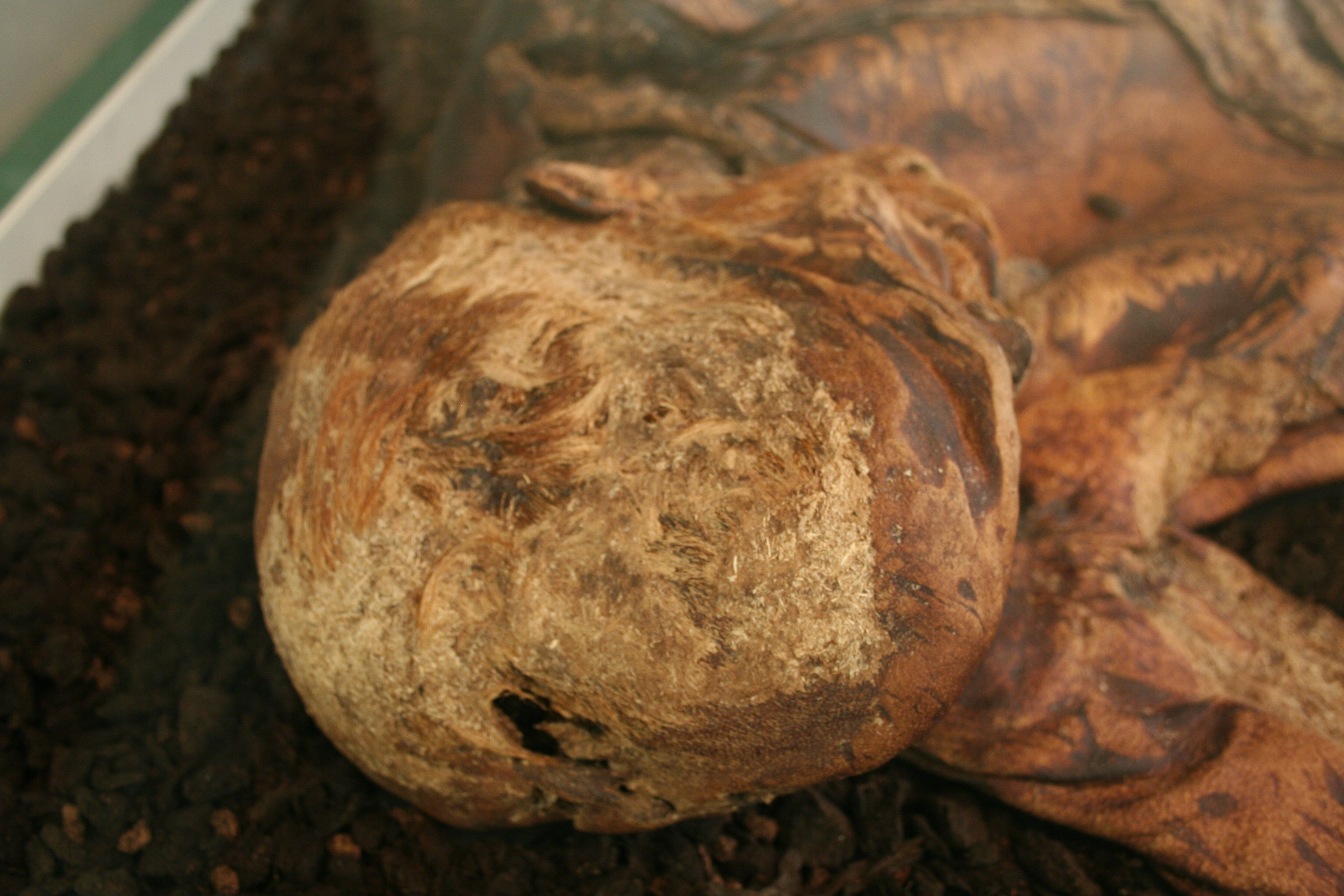 The Lindow Man